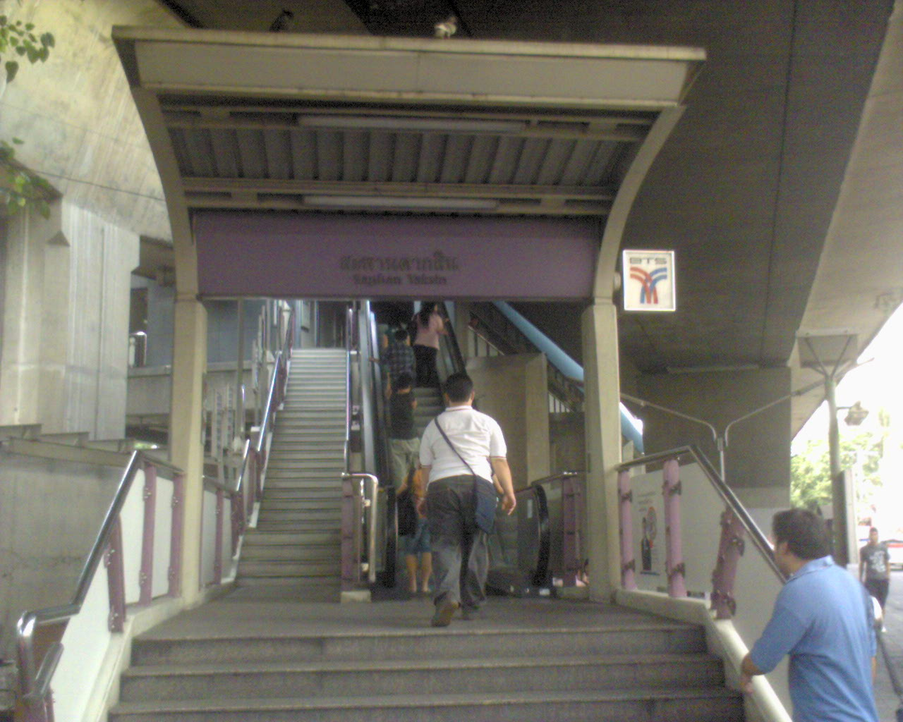 BTS Saphan Taksin Station